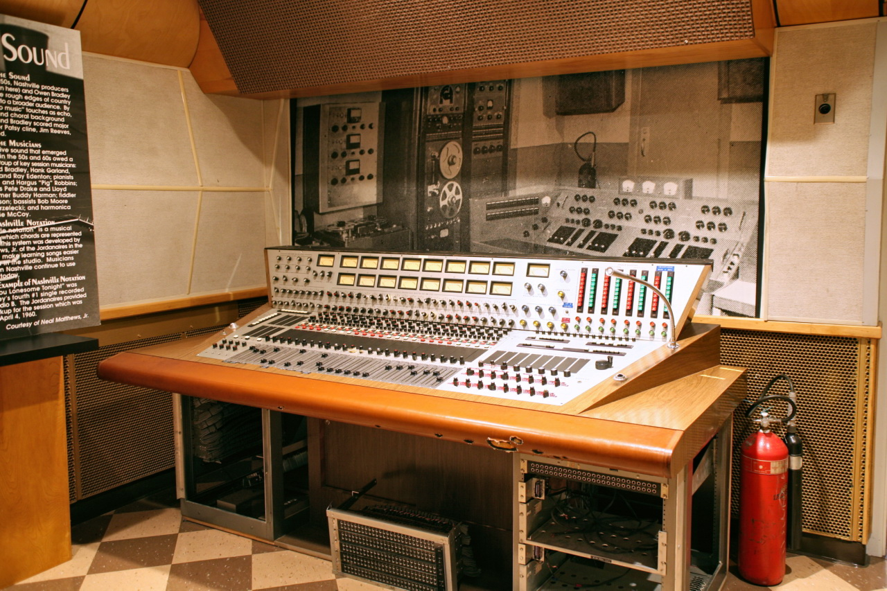 flickr caption: The equipment in the recording studios and mixing booth represent the studio's heyday from 1957 to 1977. Visitors are usually fascinated by the three-track mixing machine that recorded most of the studio's hits.